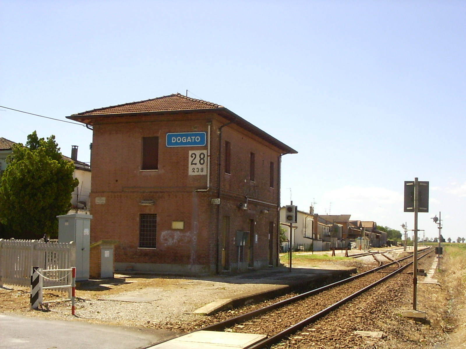 Dogato train station